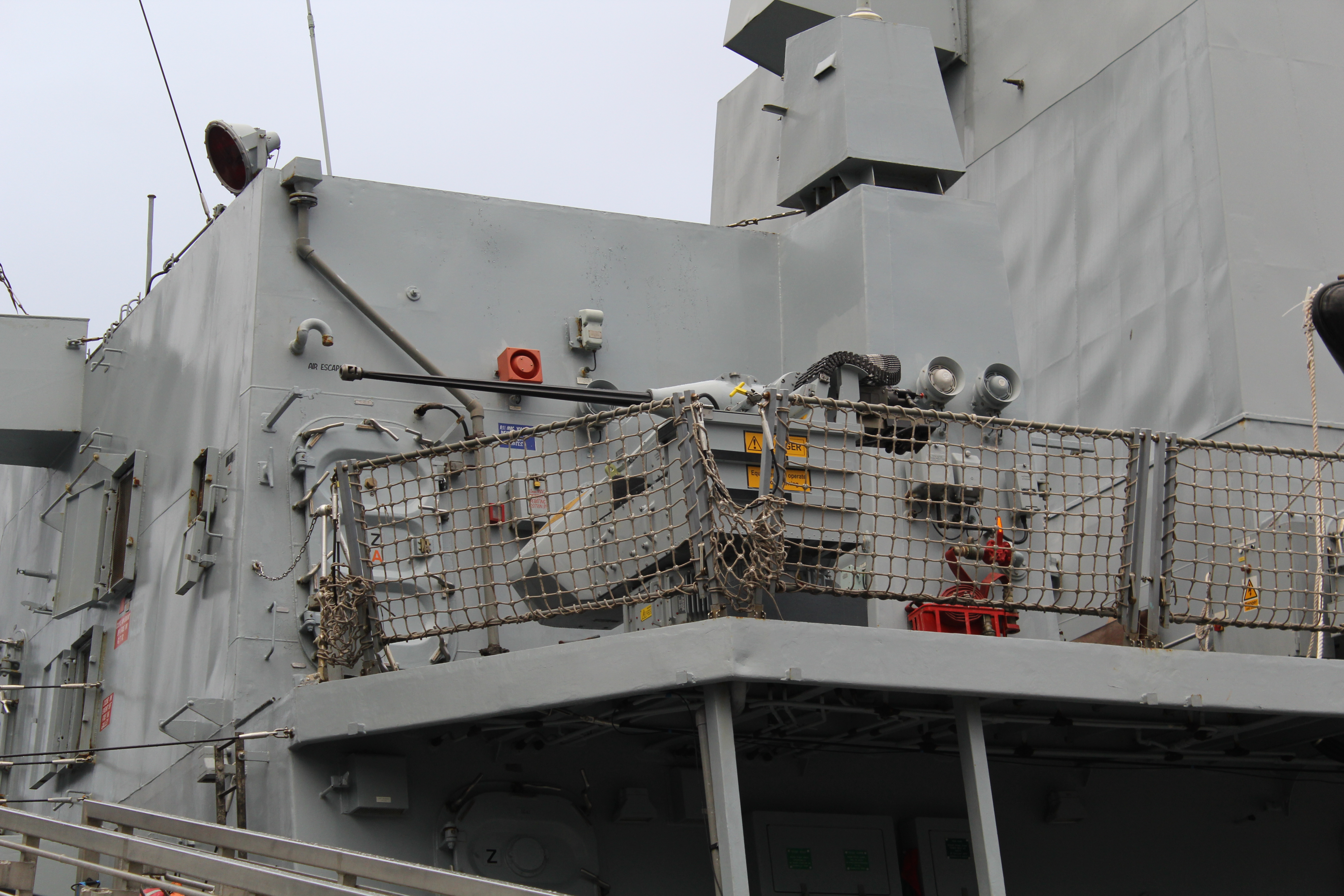 HMS Northumberland (F238) docked at West India South Dock.